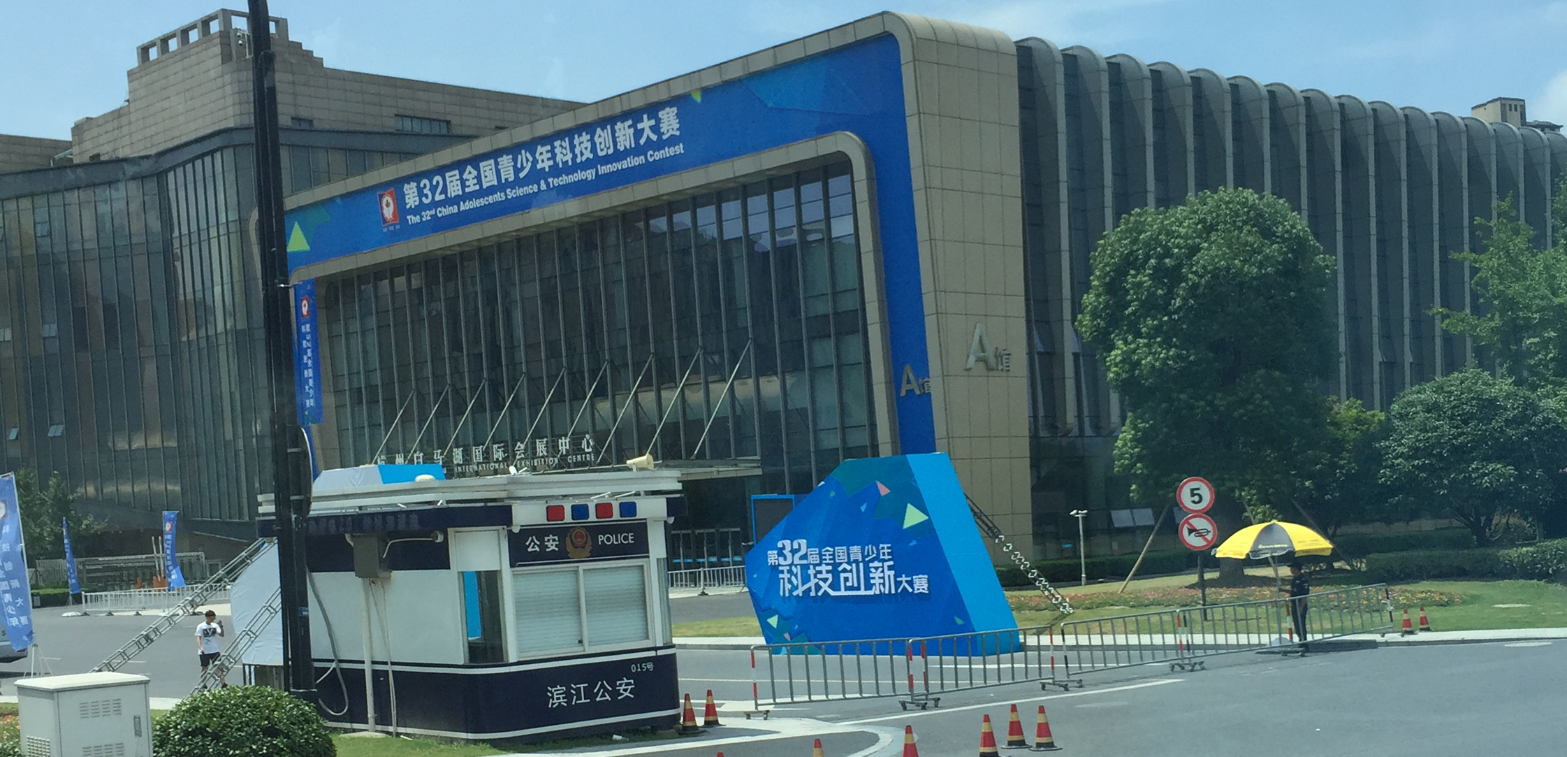 China Adolescents Science and Technology Innovation Contest 2017 at Hangzhou, China